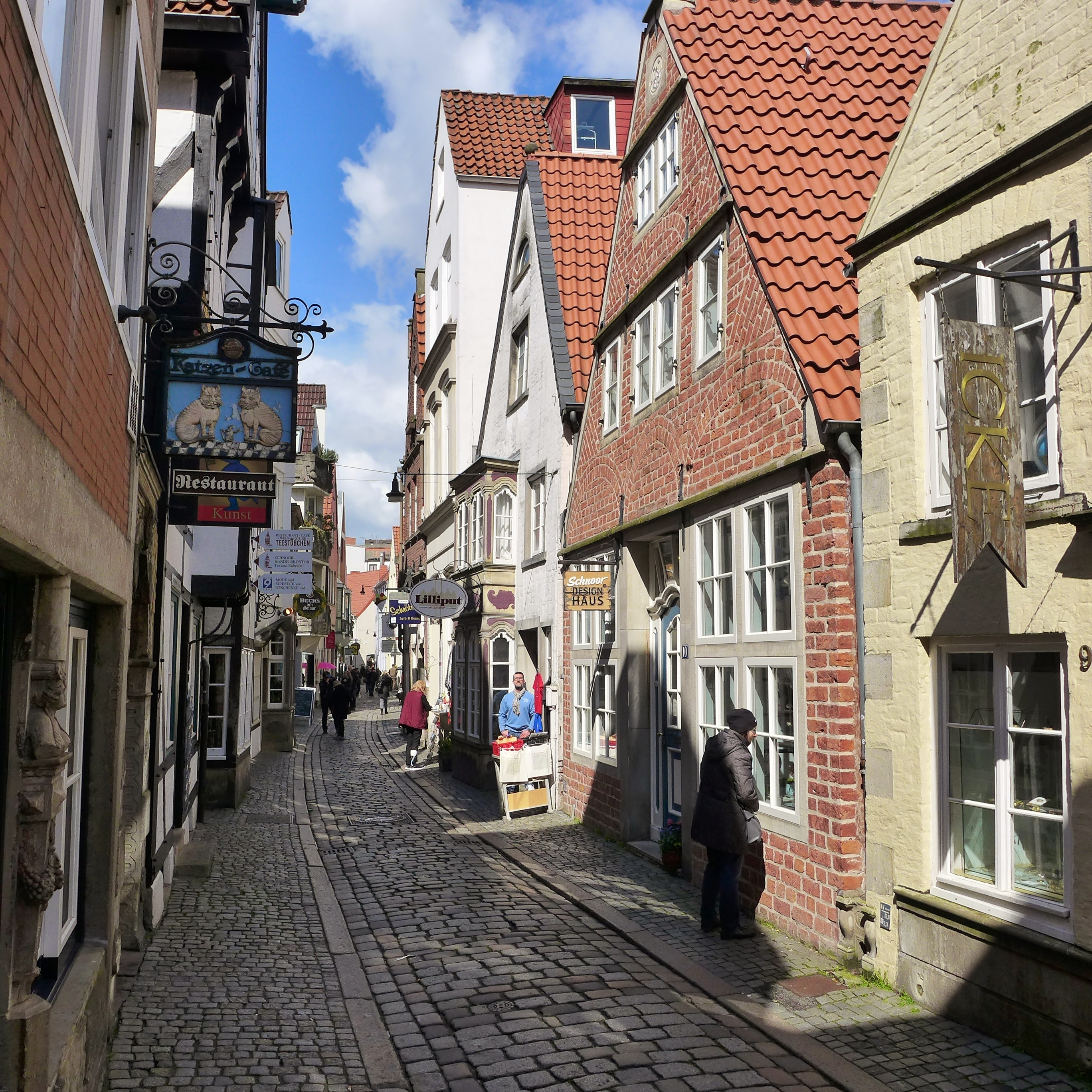 View of Schnoor, the eponymous street in the Schnoor neighbourhood of Bremen, Germany